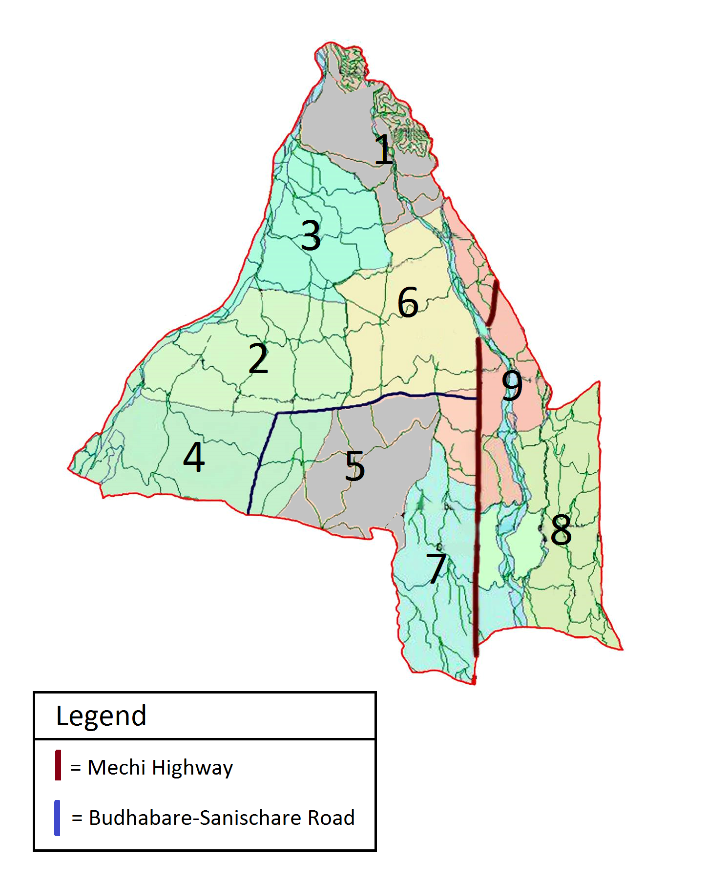 A map of Budhabare depicting all the integral wards.